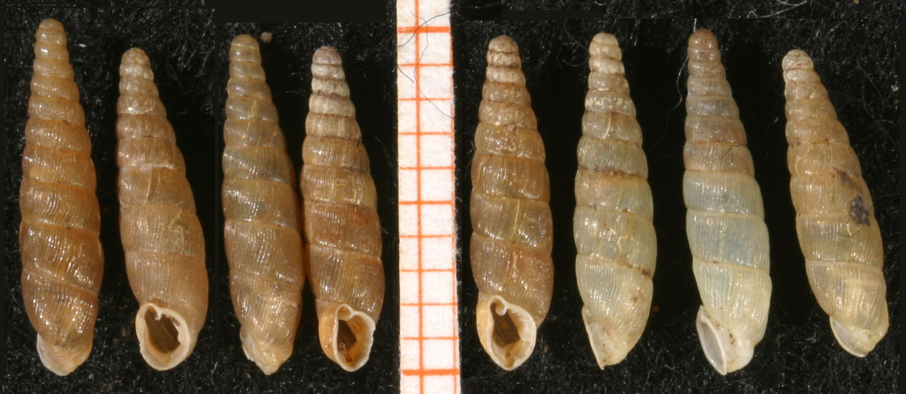 Photo of shells of Pseudofusulus varians. Scale in mm. Locality: Austria: Kärnten, Ruine Kraig. Date: Collected before 1960 by W. Klemm.